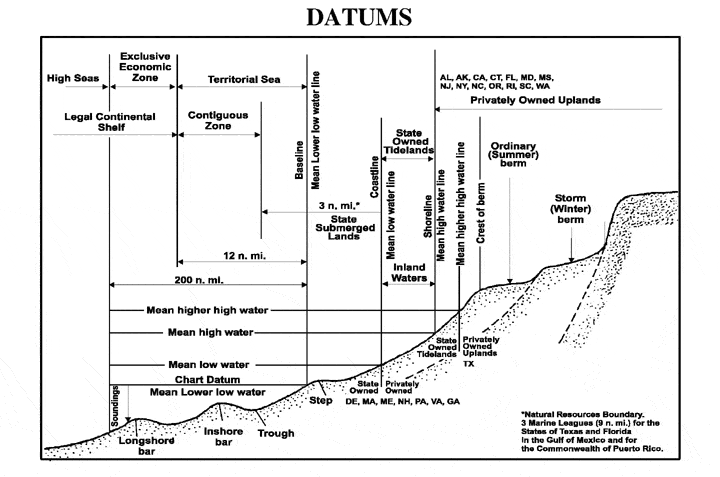 The principal tidal data related to a beach profile. The intersection of the tidal datum with land determines the landward edge of a marine boundary.